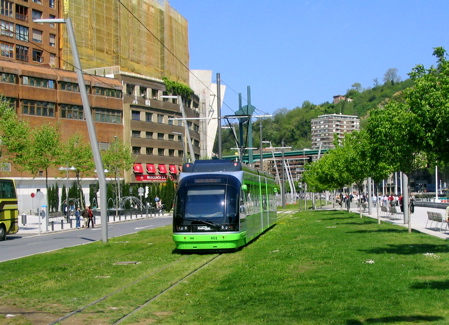 Grassed track on the EuskoTran in Bilbao